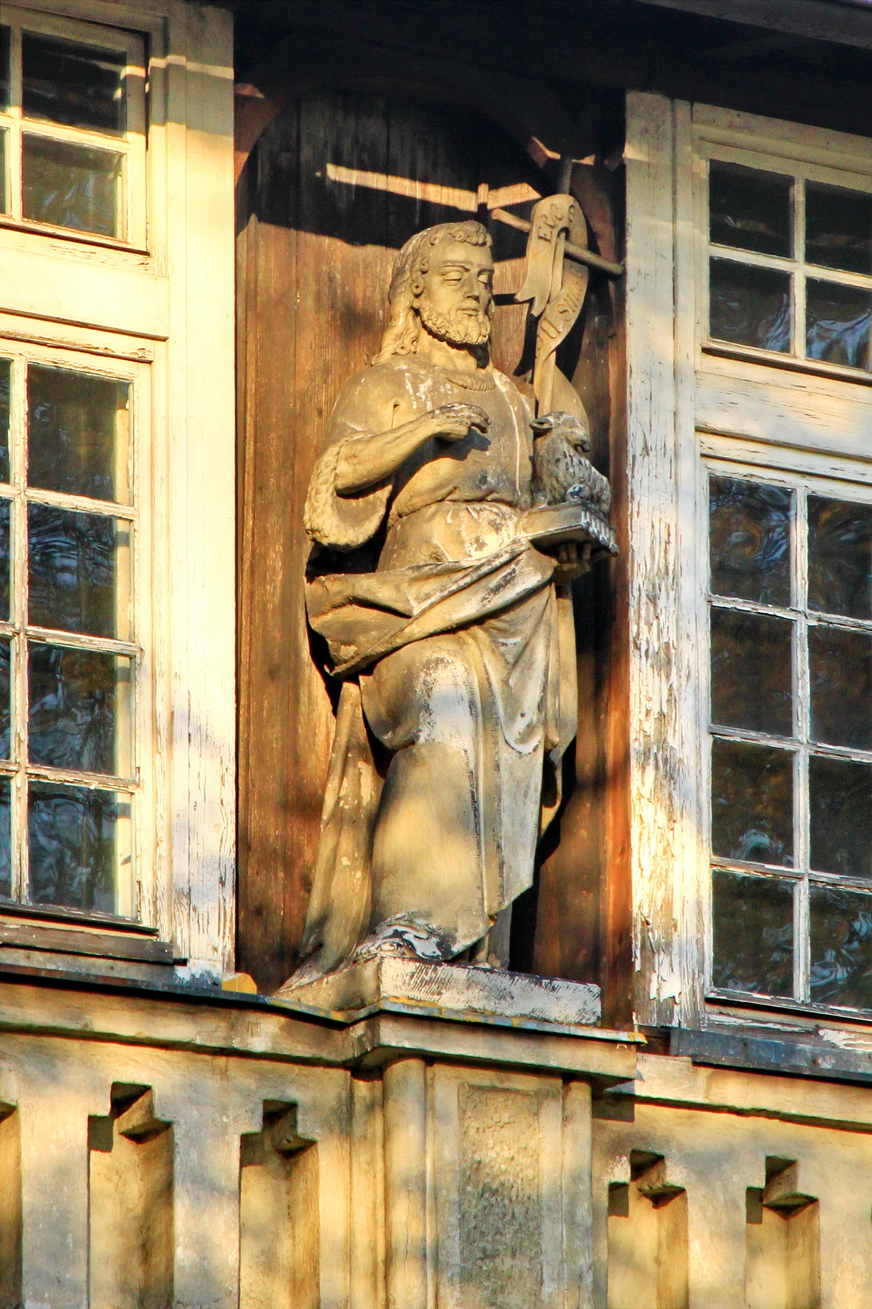 Rybnik, former hospital complex "Julius", later town hospital nr 1